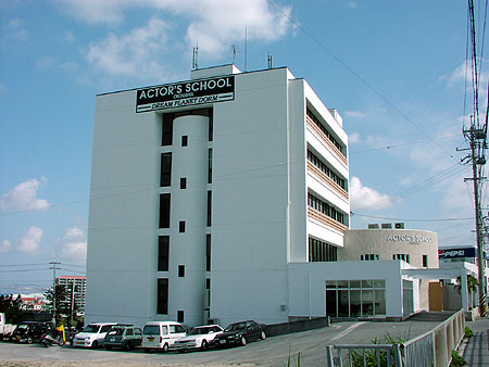 Okinawa Actor's School